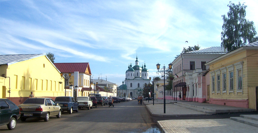 The city of Elabuga, street Spasskaja, on center Spasskiy a cathedral